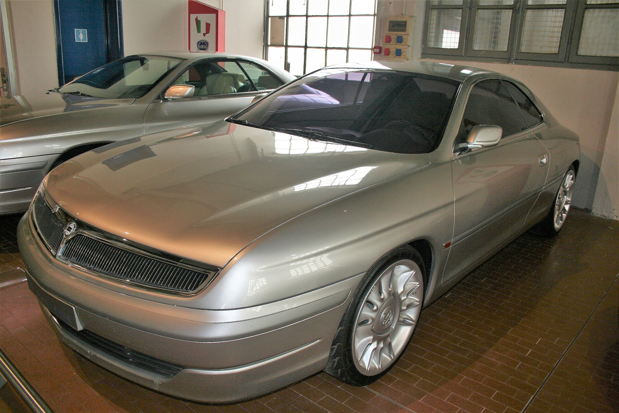 At the Bertone collection of the Automotoclub Storico Italiano (ASI), located in Volandia outside of Milan (by the Malpensa airport and museum areas